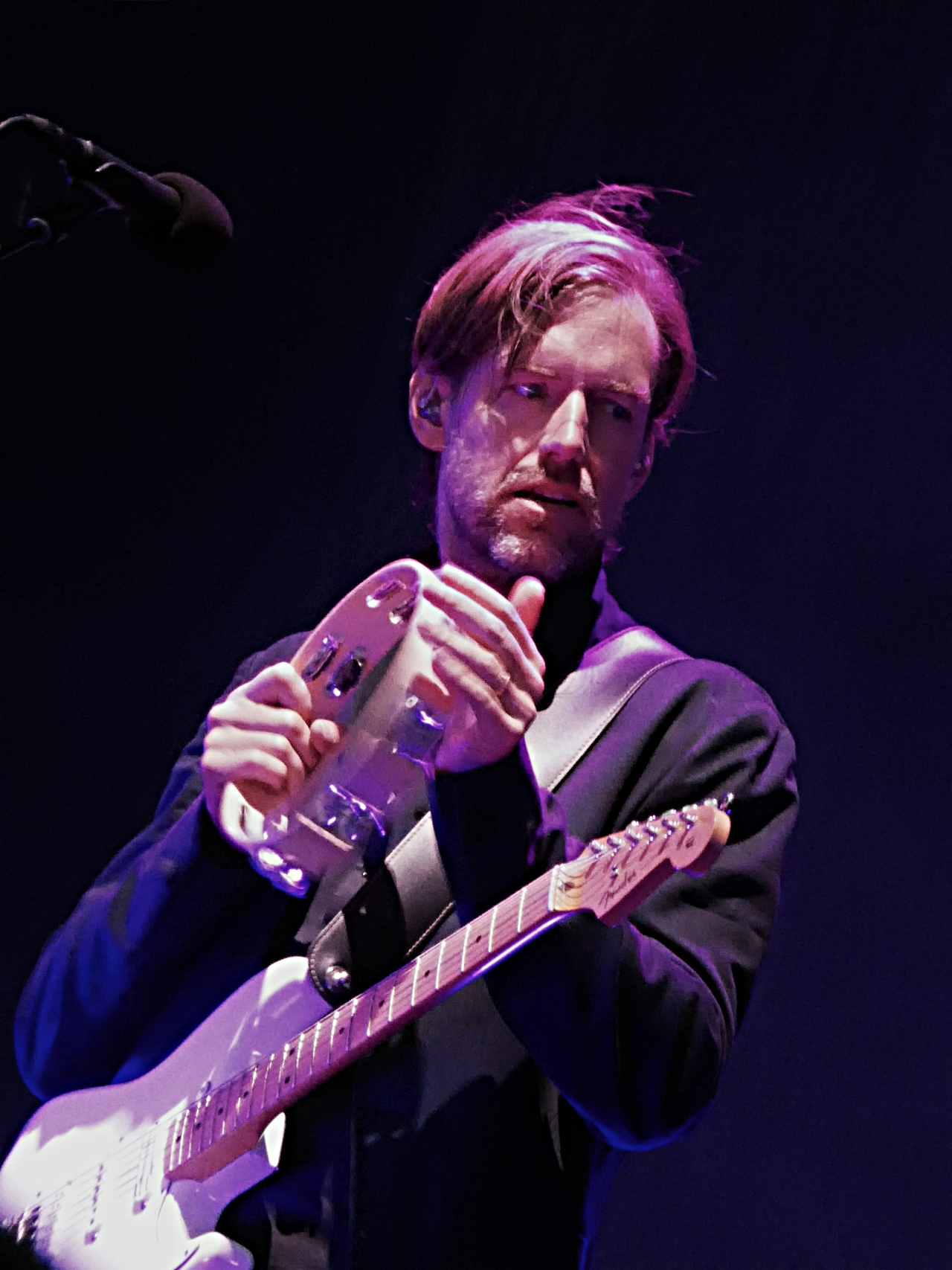 Ed O'Brien of Radiohead taken at TRNSMT festival (2017)